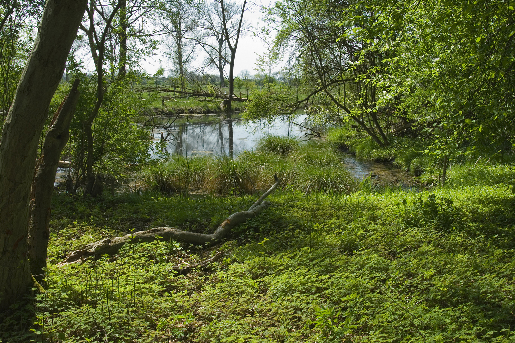 karst spring “Grimmensee“, with Greater Tussock-Sedges in front. These plants, resembling grasses, are a rare specie. Grimmensee is a geotope in the wetland “Schwäbisches Donaumoos“. The area next after Ulm/Langenau is a permanent wetland of ca. 7,5x15 km, devided by the border Baden-Württemberg and Bavaria. In this area the meltwater of the pleistocene river Upper Danube transported gravel, over time forming gravel beds of enormous size, functioning as a groundwater reservoir, which kept the surface a wetland. This kind of “full water tub” contains the karst waters of the southeastern Swabian Alb, mainly from river Lone and its dry valley-tributaries. This river network meanwhile percolates ca. 80% of its precipitation underground to the wetland area of the Danube. Four large karst springs in Langenau, the biotope/geotope]/natural monument Grimmensee, the Naturschutzgebiet “Langenauer Ried”, „Leipheimer Moos” and “Gundelfinger Moos” are legally protected.